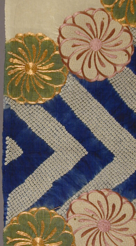 Japan, Edo period, late 17th century Costumes; principal attire (entire body) Tie-dyeing (kanoko shibori) and silk and metallic thread embroidery on silk satin (shusu) Gift of Miss Bella Mabury (M.39.2.248) Costume and Textiles